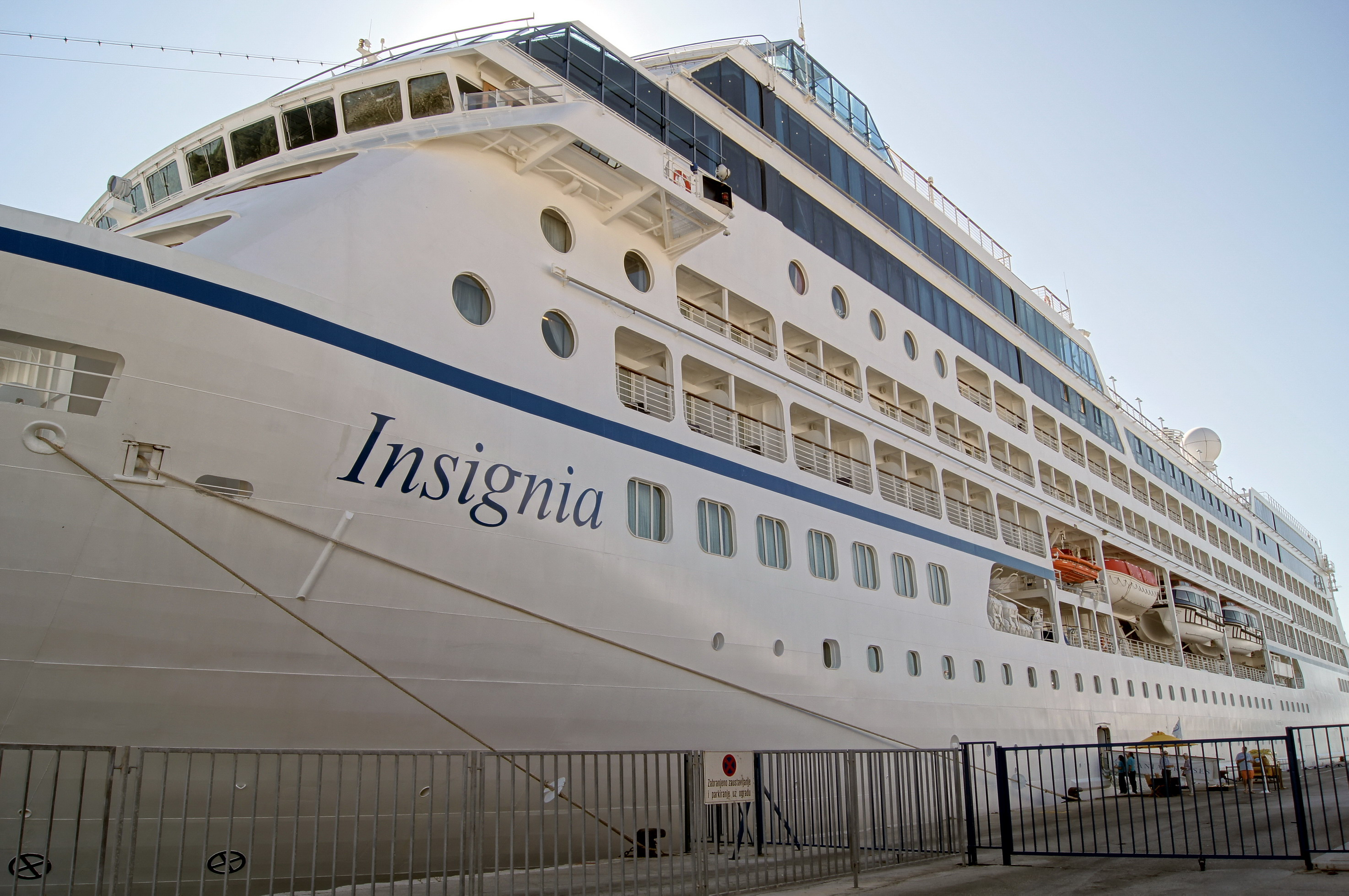 Insignia (ship, 1998) IMO 9156462; in Split, 2011-10-01